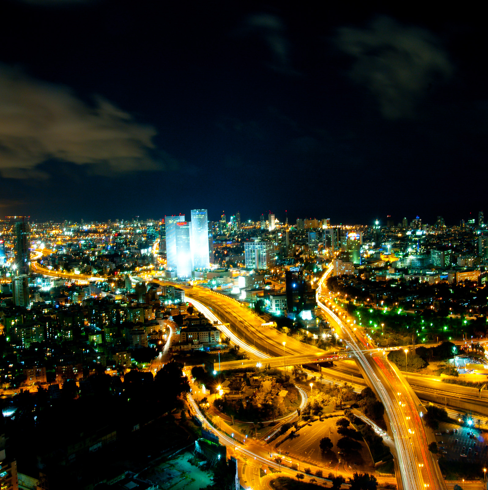 A long exposure shot of the southern Tel Aviv skyline, including the Azrieli towers in the center. This shot was taken from Moshe Aviv tower.